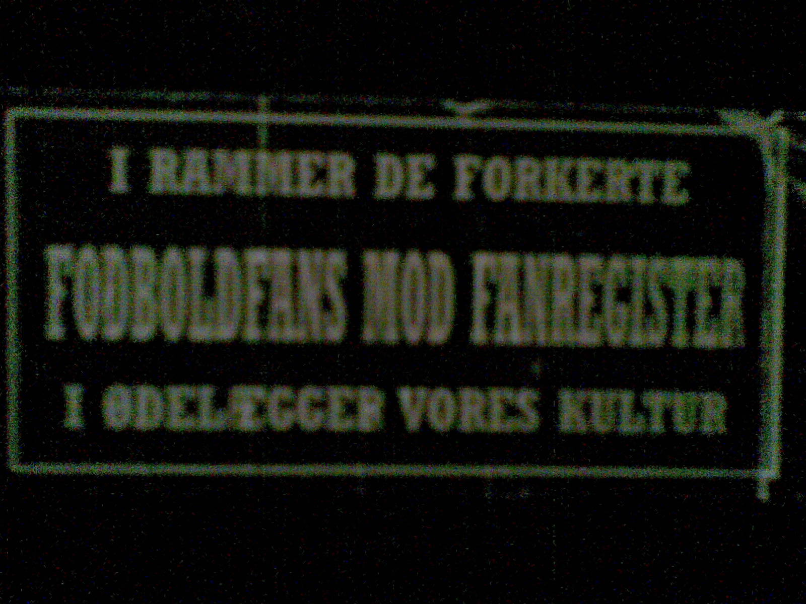 Sticker against register of football hooligans in Denmark